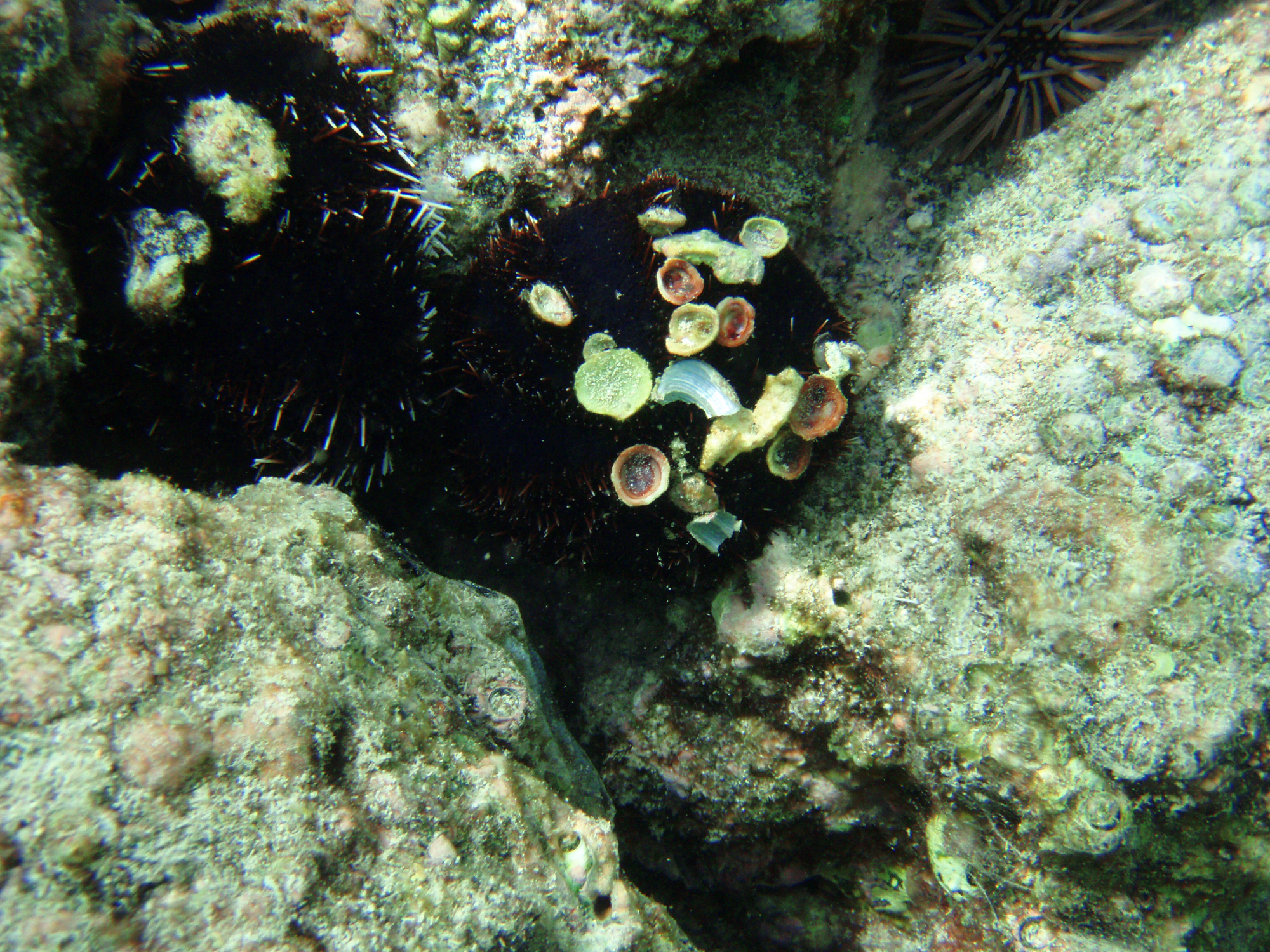 Sea urchin uses shel for camouflage in Kona, Hawaii. Species : Tripneustes gratilla and Echinometra mathaei (upright).